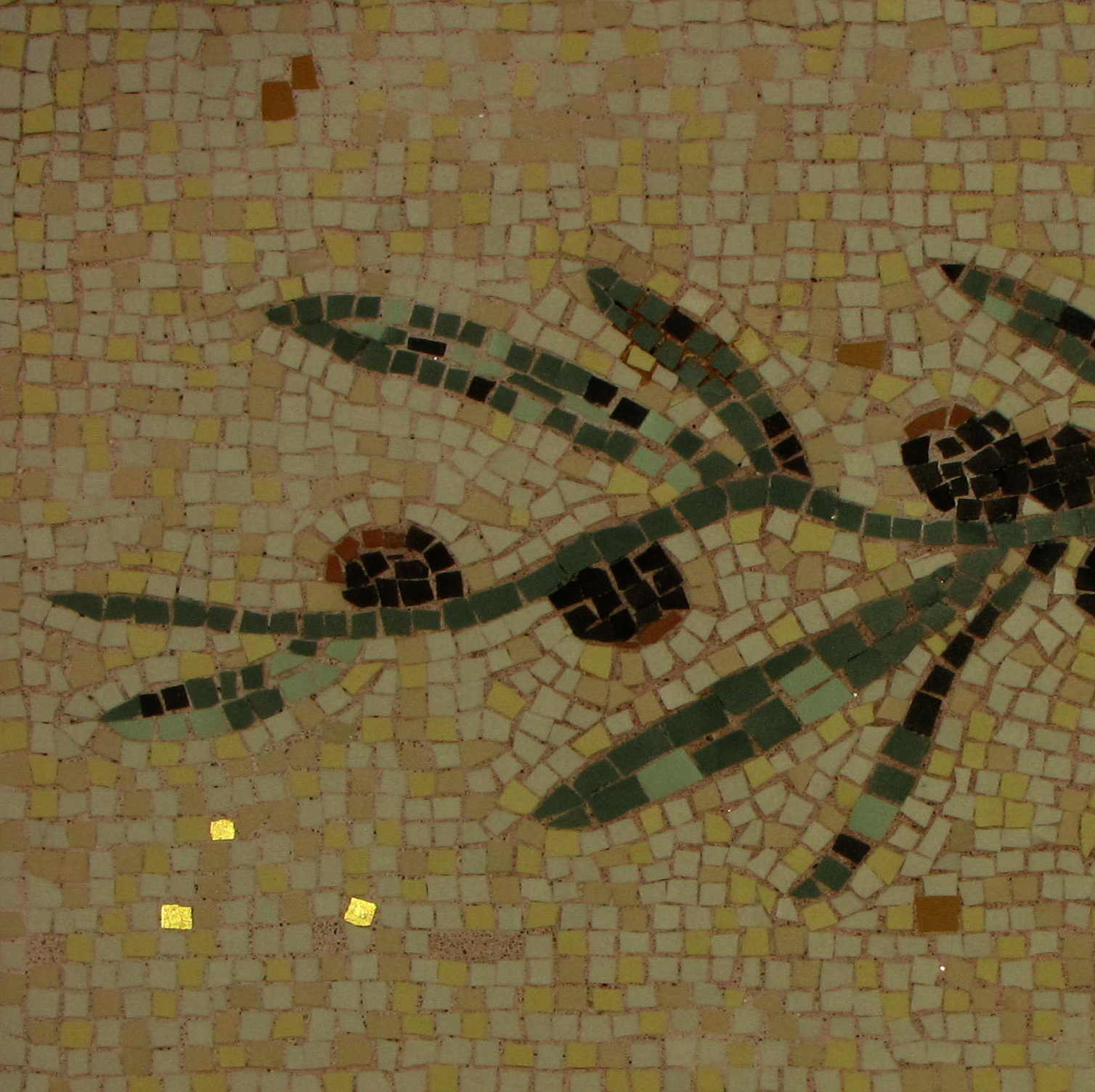 Mosaic, ancient Greek style